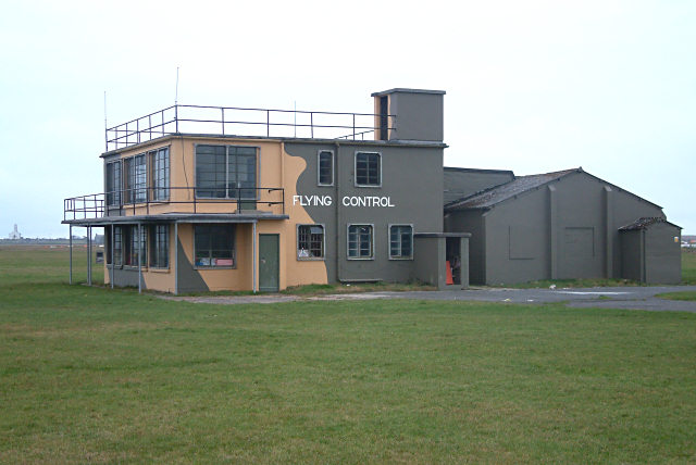 Jurby Airfield - Isle of Man. The RAF WW2 Control Tower at Jurby airfield has been preserved and is still used for its original purpose for airshows.